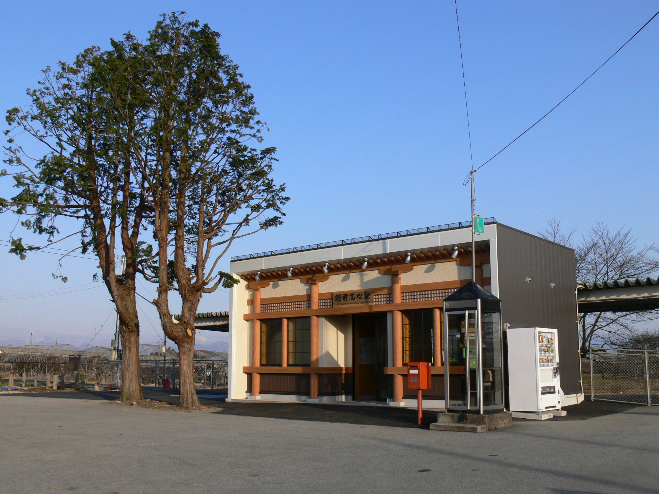 Uzen-Takamatsu Station in Sagae, Yamagata pref., Japan.